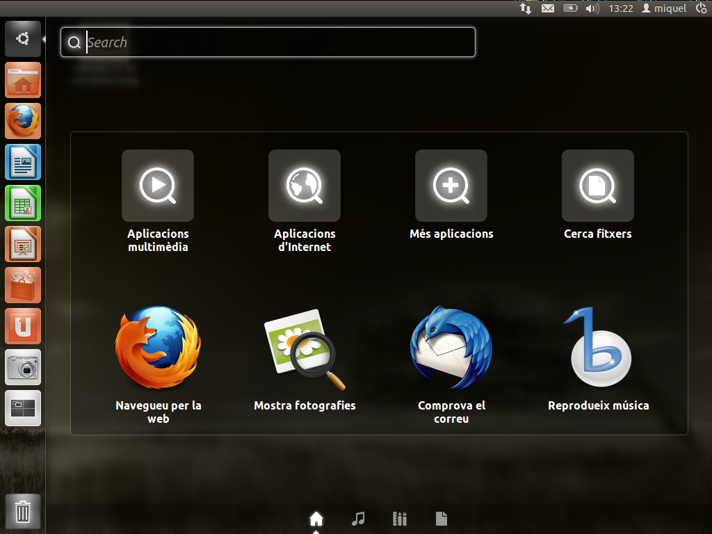 Ubuntu 11.10 Dash Home